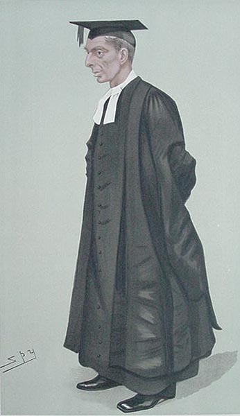 Caricature of William Gunion Rutherford (1853-1907). Caption read "Westminster".